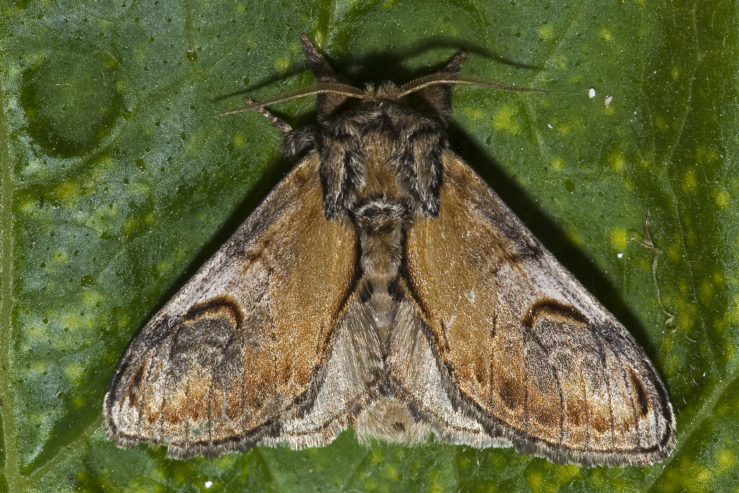 Pebble Prominent